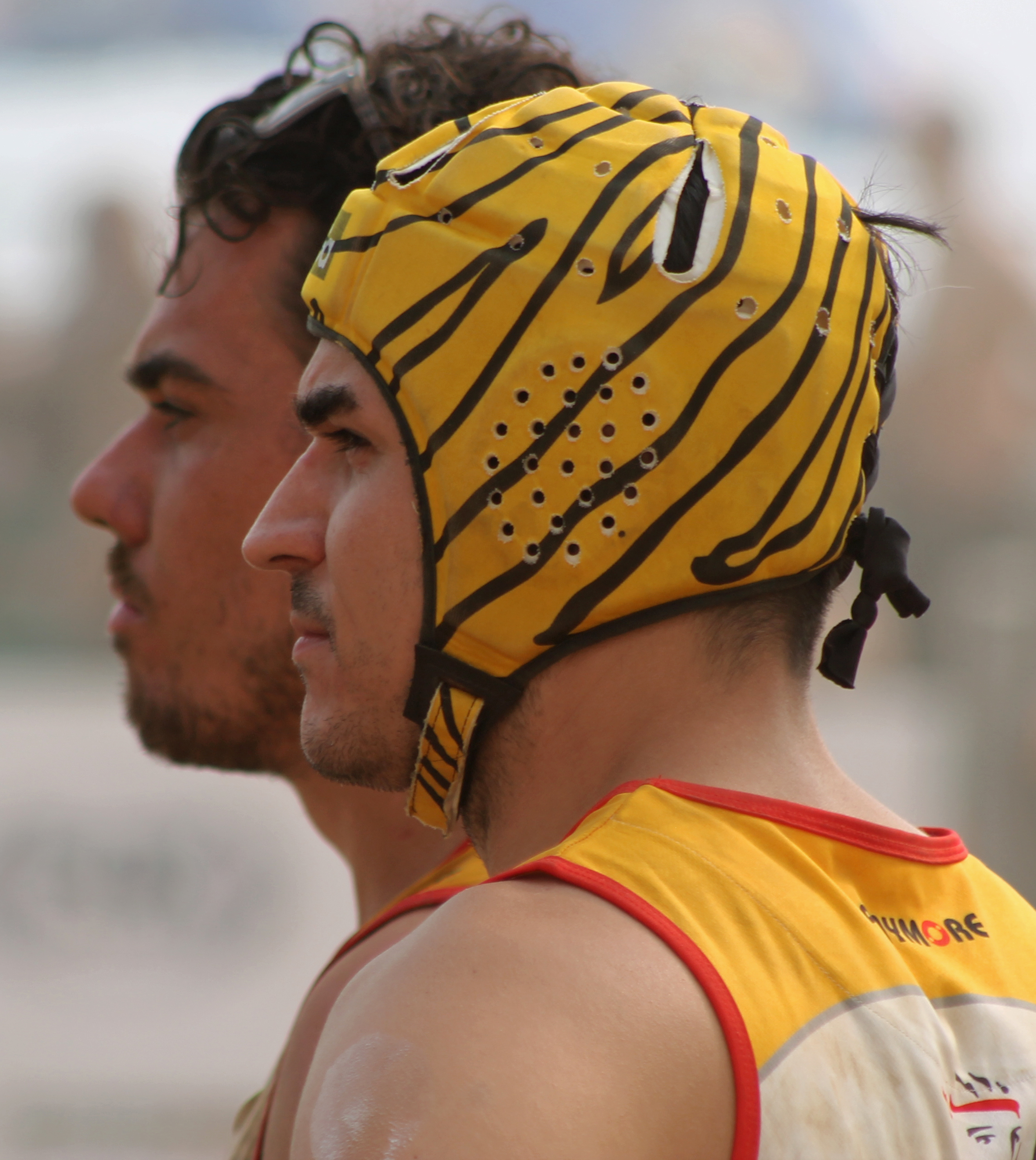 Two rugby players, one of whom is wearing a tiger-print scrum cap, at the 2013 Hong Kong Beach Rugby 5s, Repulse Bay, Hong Kong.